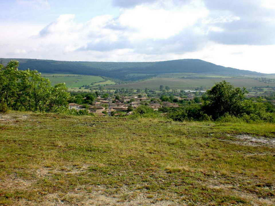 View towards Bulgarian village Drinovo, from the road to village Elenovo. In the rear: the Sakara Hill